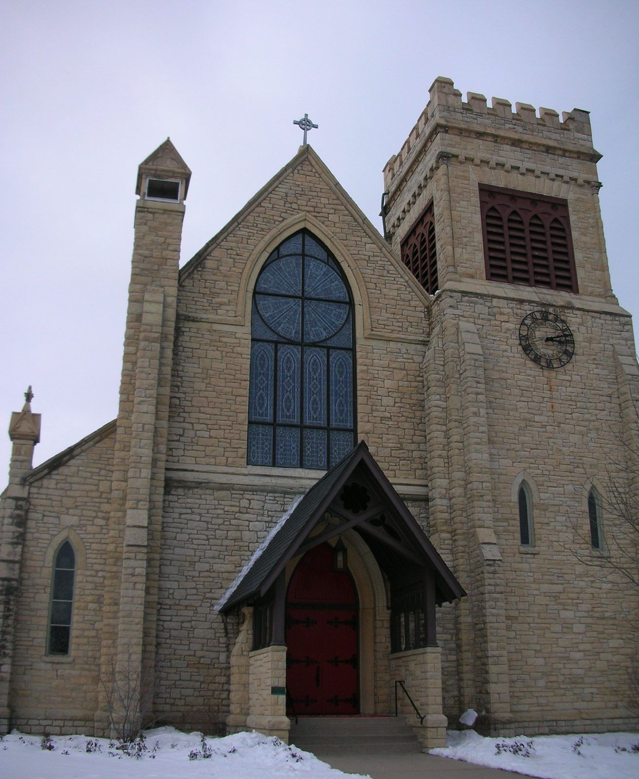 The St. Matthew's Episcopal Church (Kenosha, Wisconsin), listed on the National Register of Historic Places.